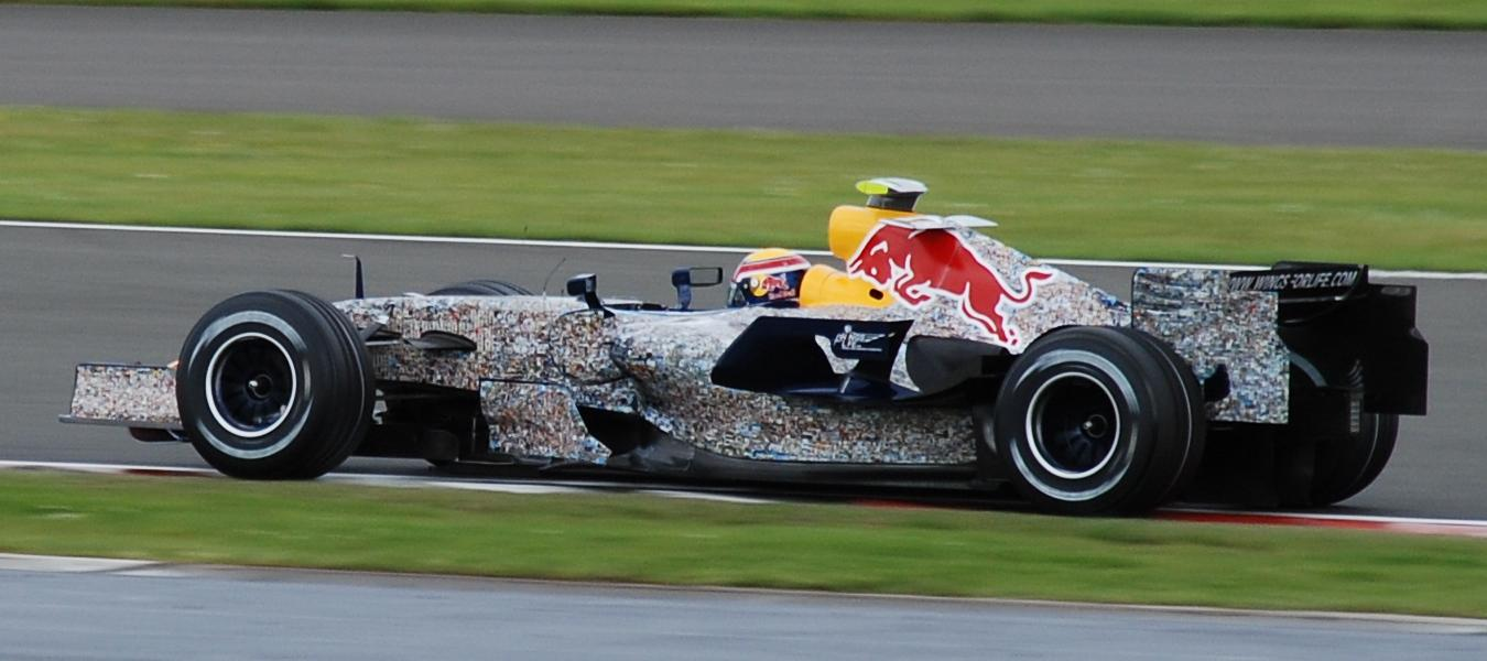 Mark Webber driving for Red Bull Racing at the 2007 British Grand Prix.